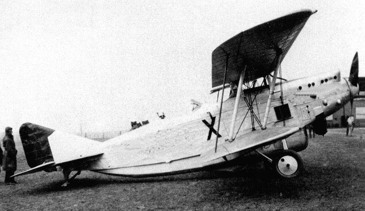 Modificated ACAZ C.2 of the Belgian Air Force